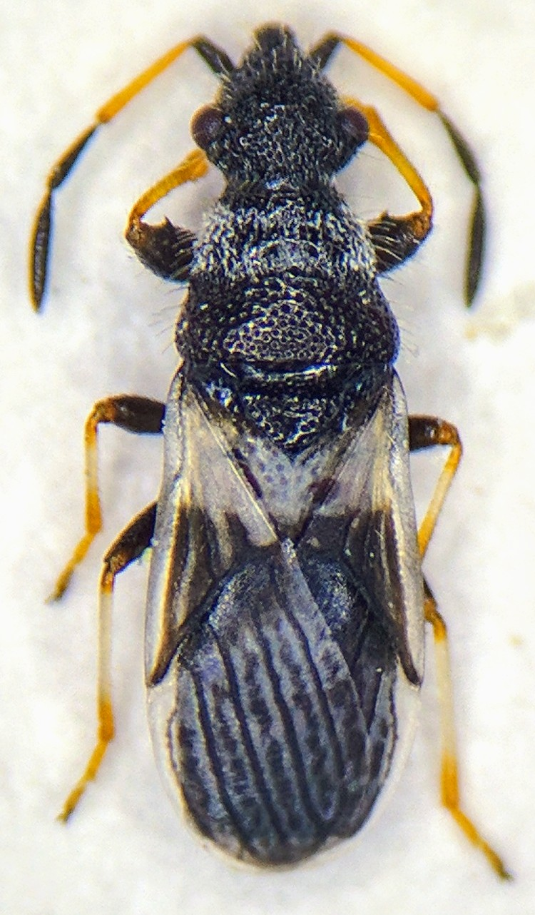 collected June 11, 2018 in Santa Cruz County